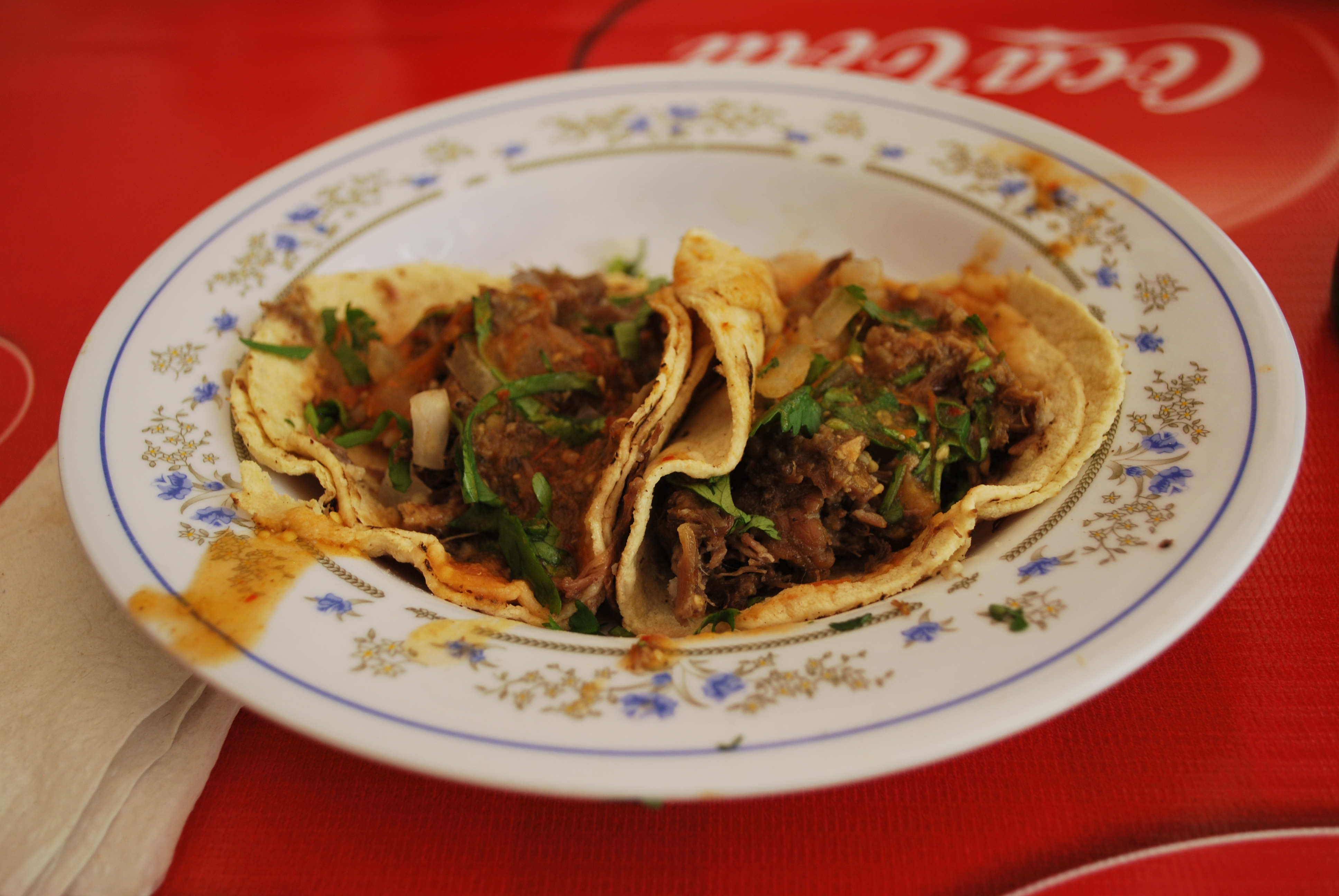 Birria tacos at a restaurant in Encarnacion de Diaz, Jalisco